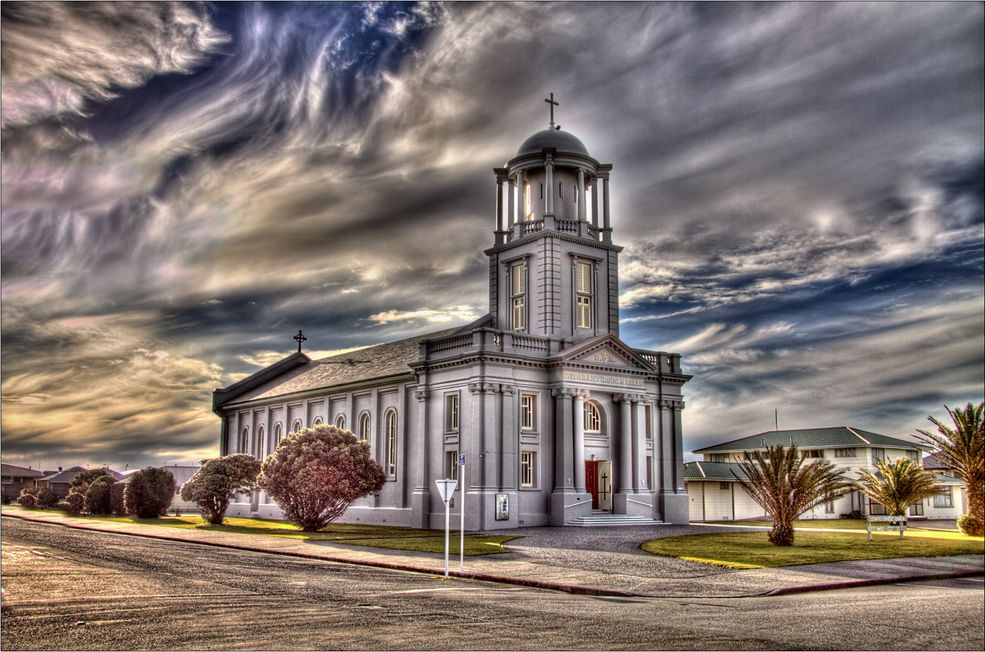 St Mary's Catholic Church, Hokitika.